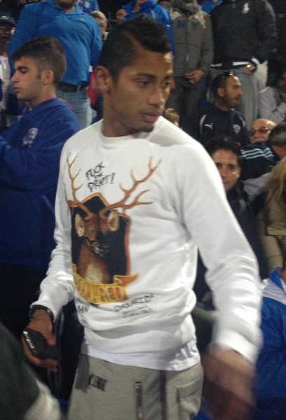 Ricardo Laborde as a fan in Anorthosis Famagusta match against AE Kouklion